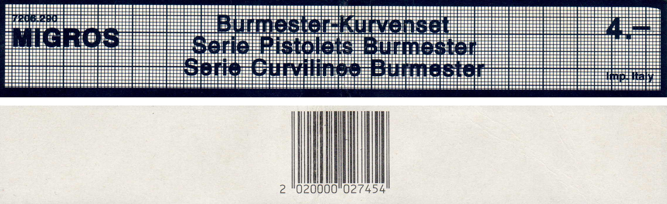 Scan of the label of the blue Burmester stencil set Label is belonging to this set of Burmester stencils